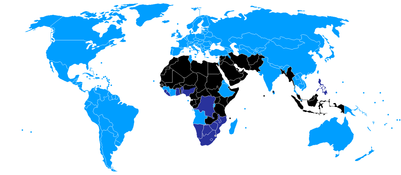 Map showing the legality of polygamy or bigamy – full labels/key with notes are localised. Legal status unknown or ambiguous Polygamy permitted and practiced Polygamy generally illegal, but practice not fully criminalised Polygamy fully outlawed/prohibited and practice fully criminalised Notes: India, Singapore, and Sri Lanka: Polygamy legal for Muslims. Eritrea: locally available for Muslims. Mauritius: polygamous unions are not legally recognised.